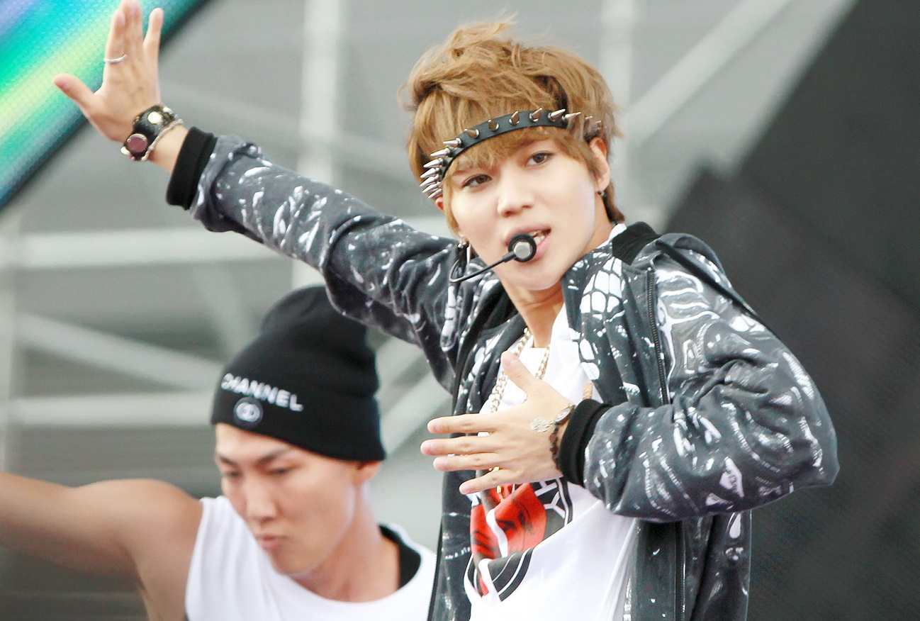 Taemin at the Hong Kong Dome Festival on July 1, 2013.